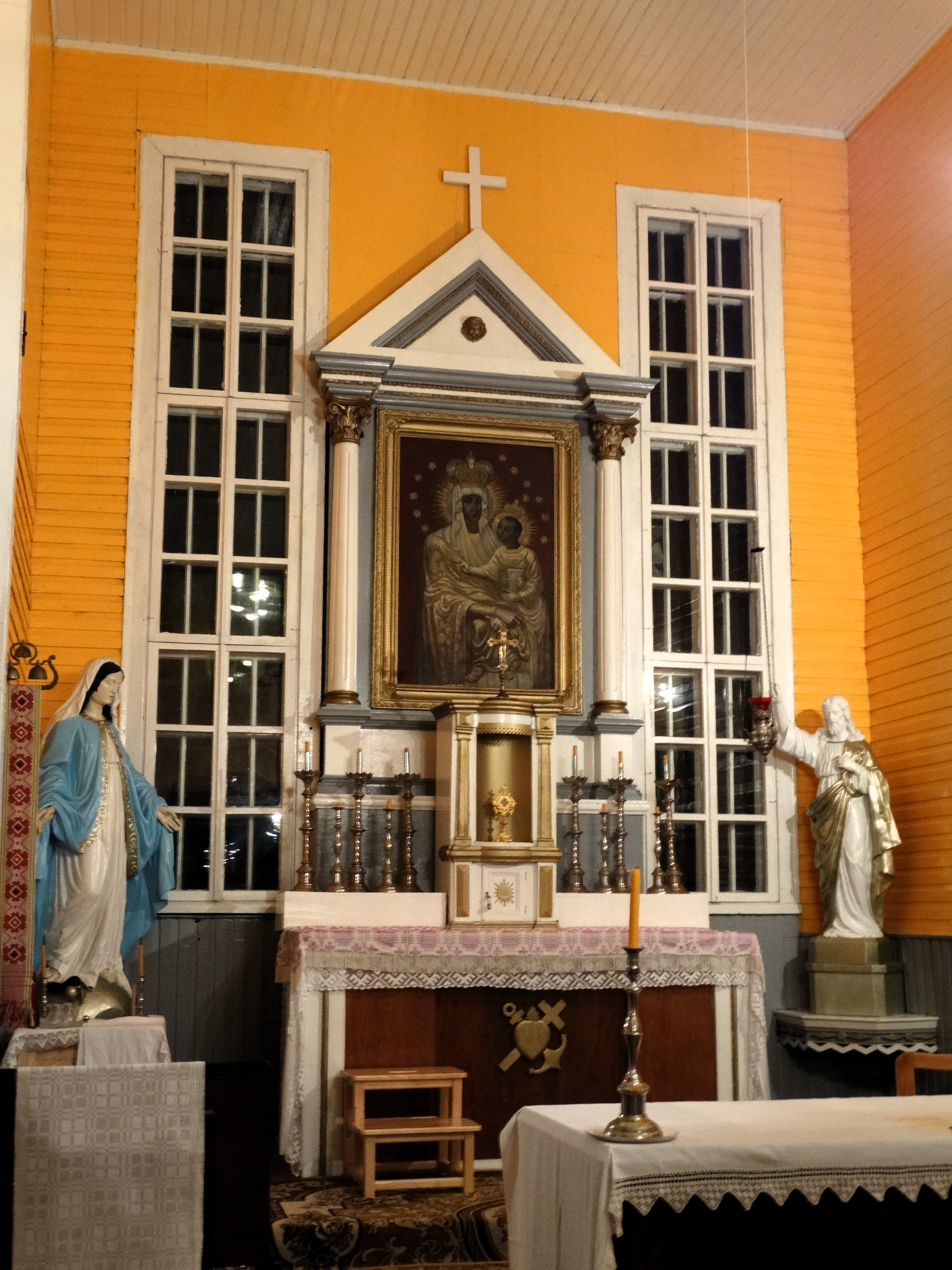 Church of St. Anthony of Padua, interior, by Ąžuolų Būda, Kazlų Rūda municipality, Lithuania